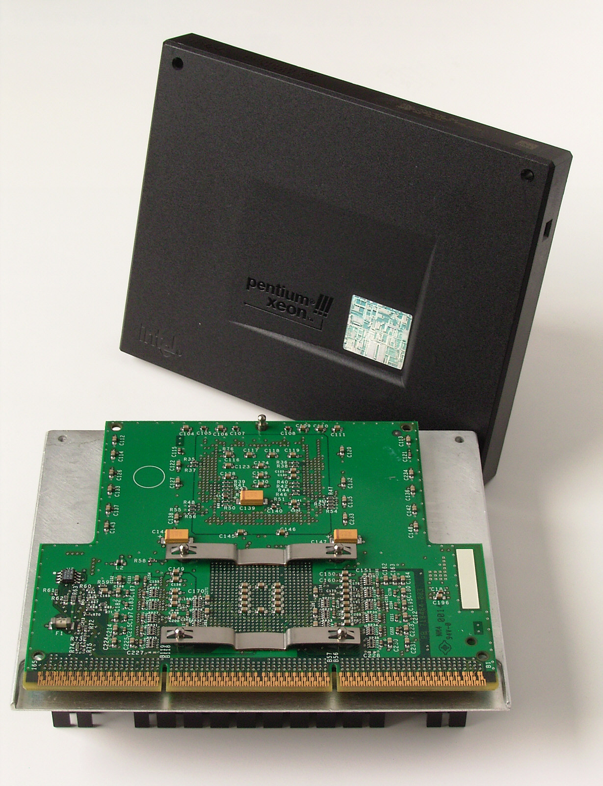 Intel® Pentium® III Xeon® Processor 550 MHz, 1M Cache, 100 MHz FSB / Socket SC330 (Slot 2)